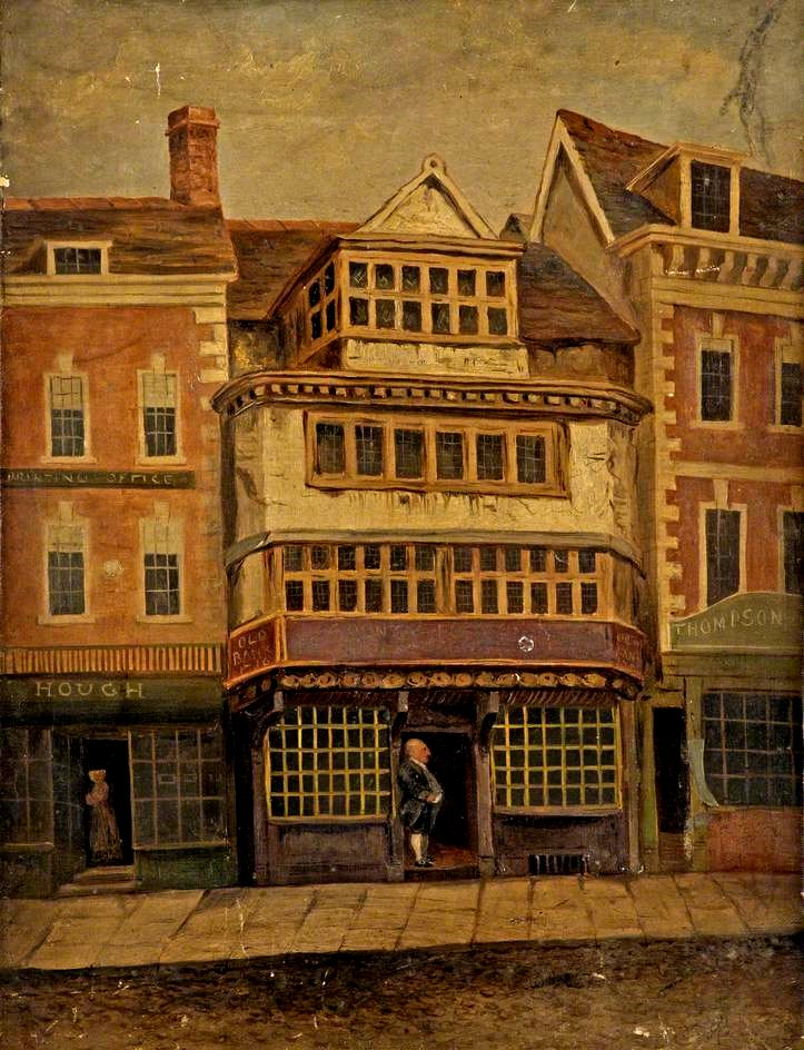 An 1828 oil painting of Gloucester Old Bank by J.R. Orton after a print by George Rowe. The figure is almost certainly intended to by Jemmy Wood, the bank's owner.